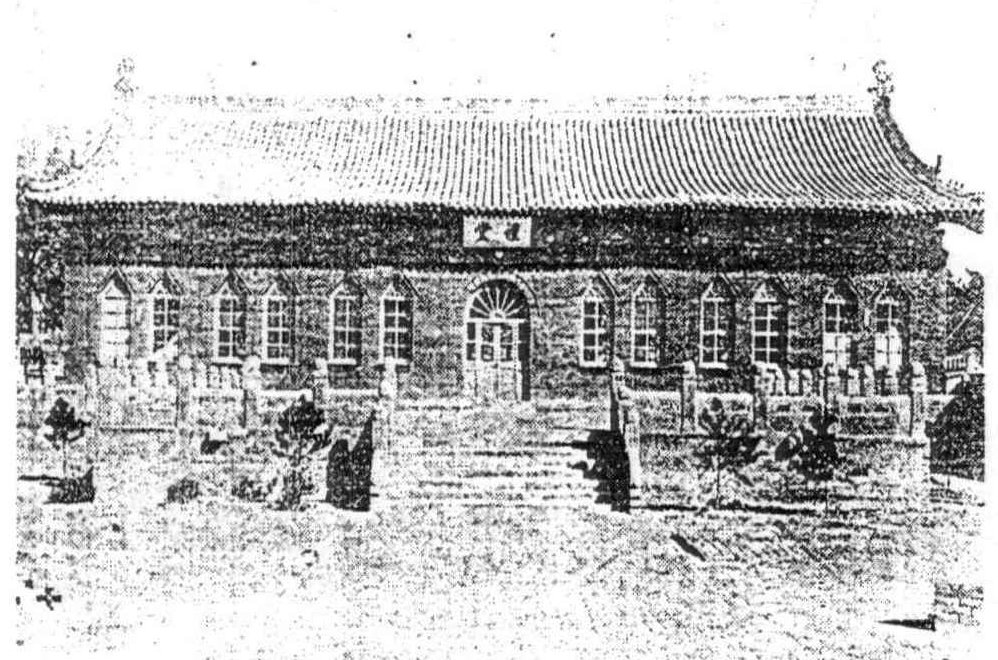 Auditorium, Bingzhou College